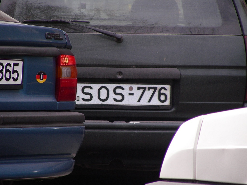 Republic of Georgia vehicle registration plate. "SOS" letter series possibly for use on emergency vehicles.